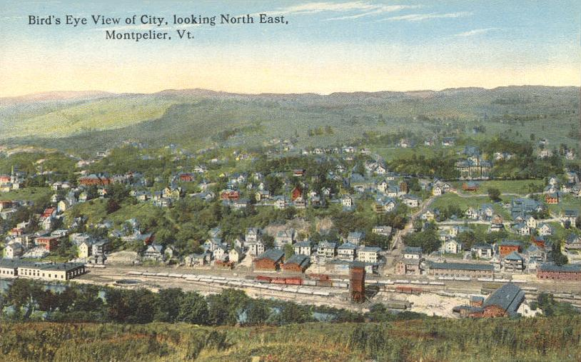 Bird's-eye view of city, looking northeast, Montpelier, Vermont; from a c. 1912 postcard.